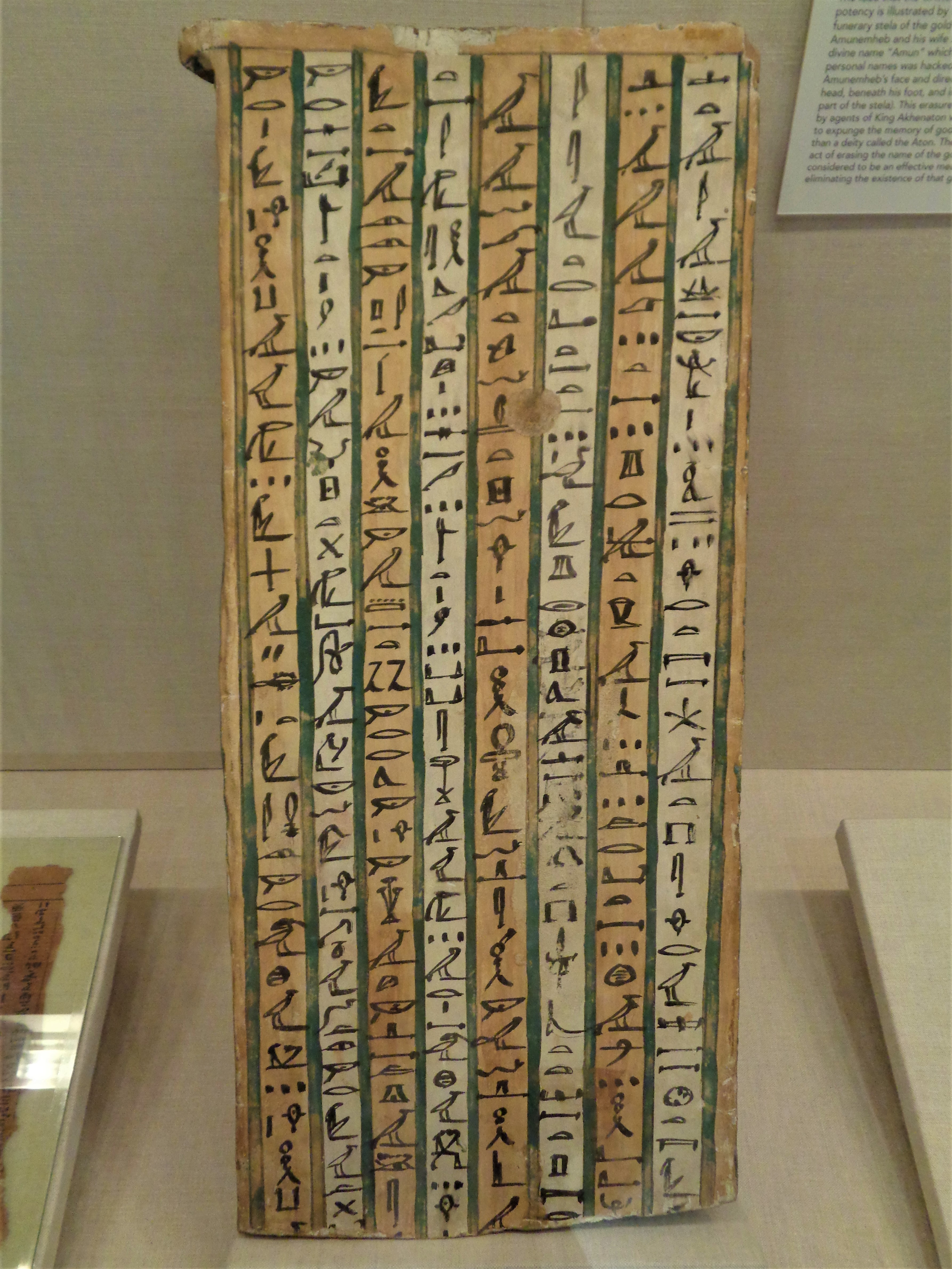 Fragment of coffin of Muthetepi (c. 747 - 656 BCE, Third intermediate period, 25th dynasty), gesso, paint, ink on wood. Book of the Dead, spell 79: attaching the soul to the body; and spell 80: preventing incoherent speech. (Oriental Institute University of Chicago)